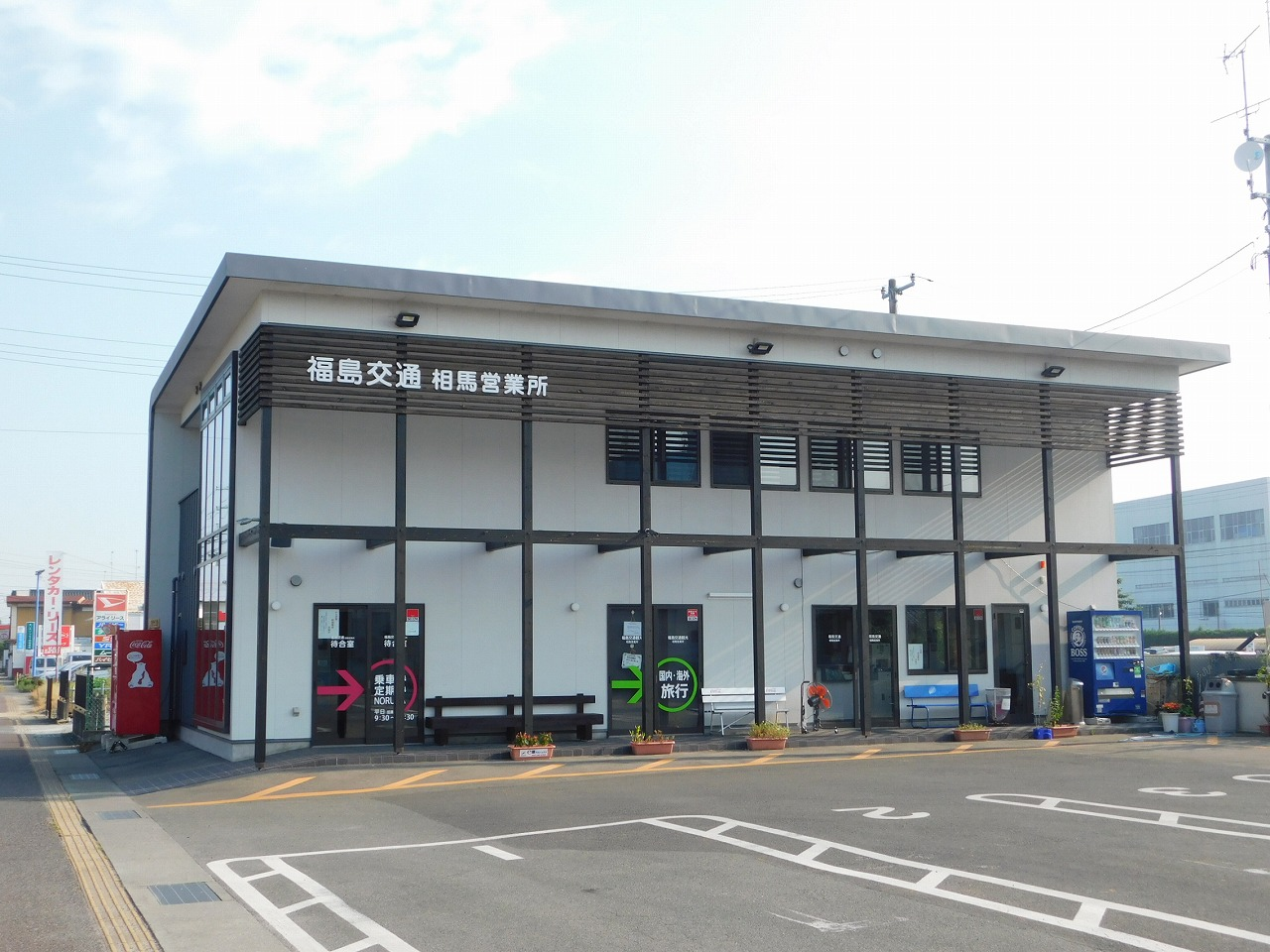 Fukushima kotsu Soma depot